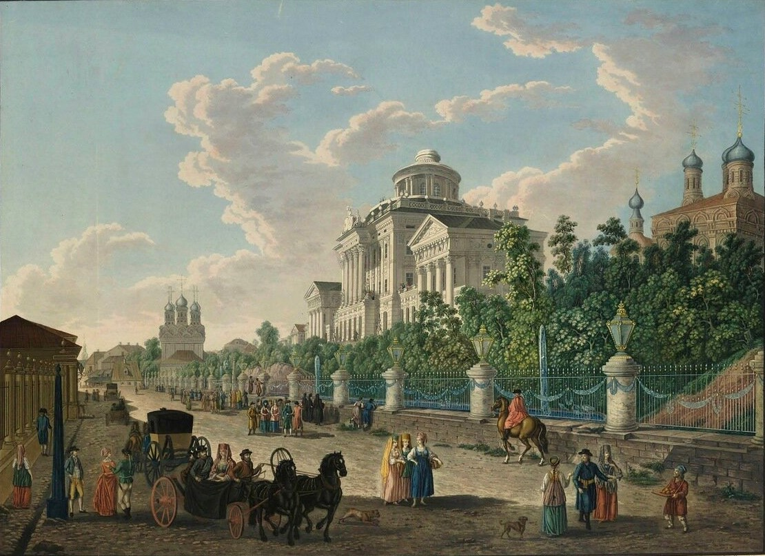 Mokhovaya Street - Pashkov House